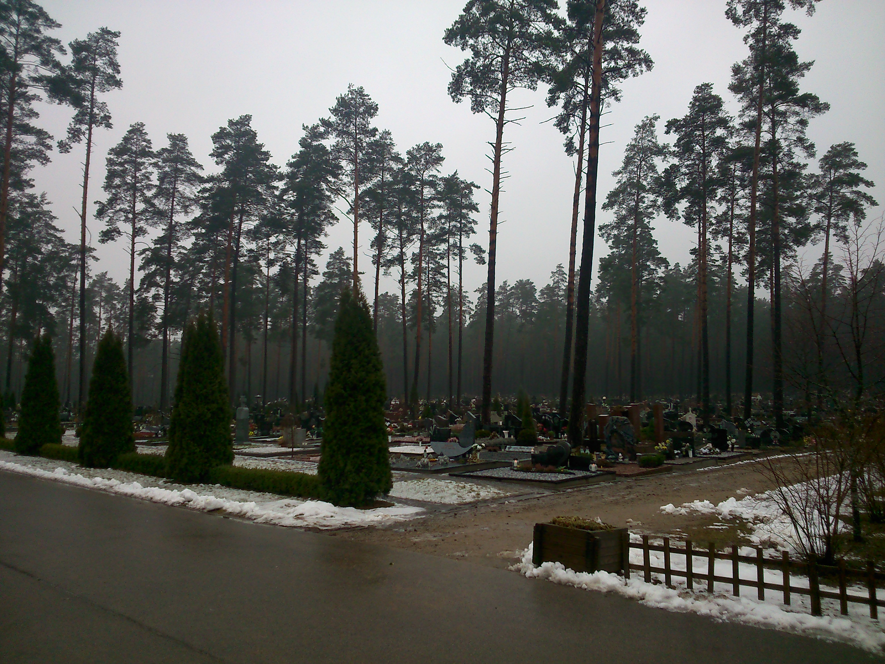 Kairėnai Cemetery